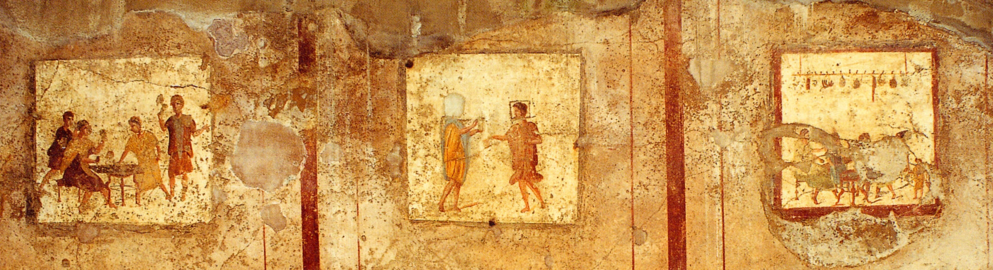 Roman fresco from the Osteria della Via di Mercurio (VI 10,1.19, room b) in Pompeii.